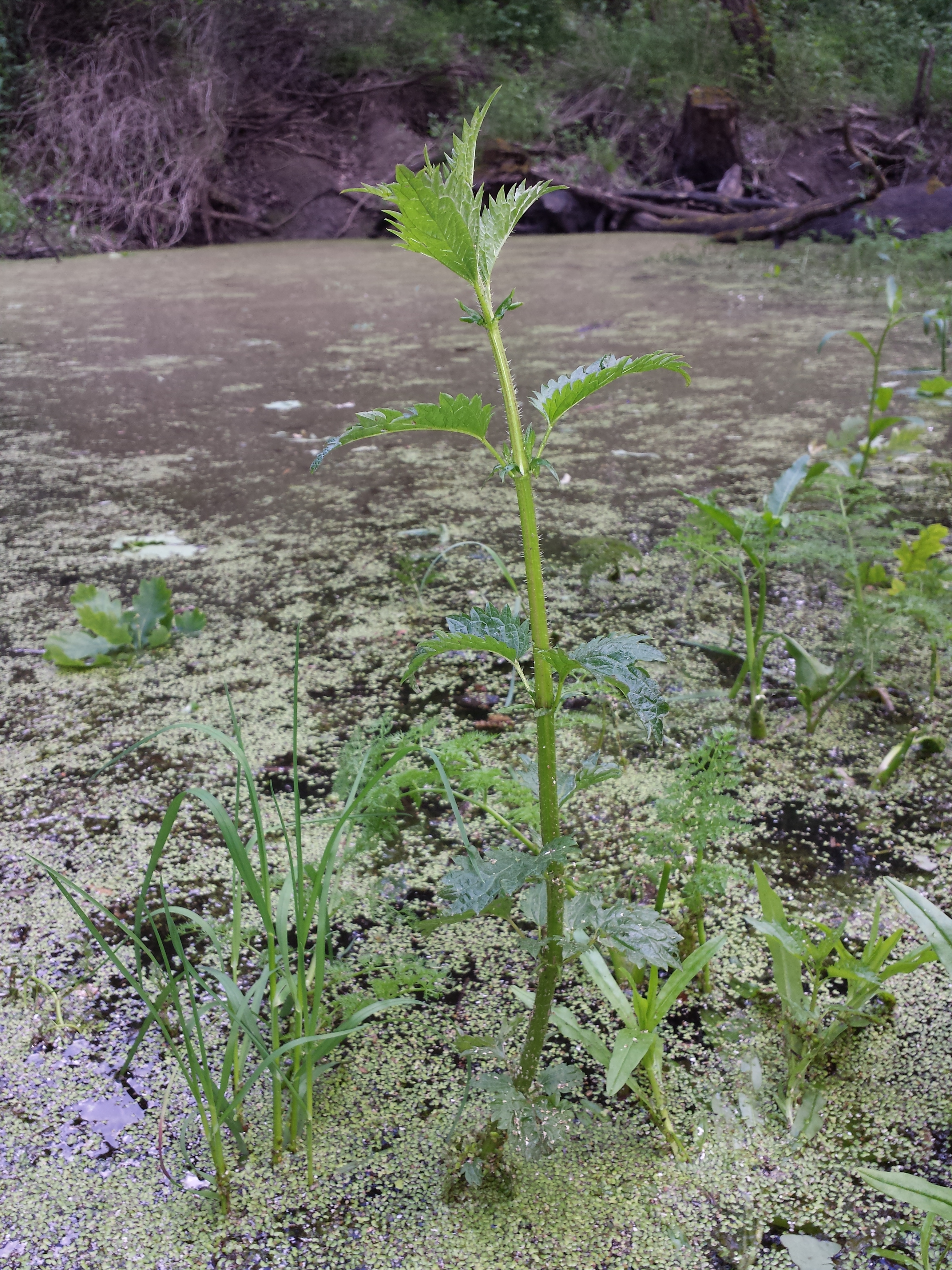 Habitus Taxon: Urtica kioviensis (sensu Fischer et al. EfÖLS 2008, ISBN 978-3-85474-187-9; det. M. A. Fischer 2014-05-04) Location: Ringelsdorf, district Gänserndorf, Lower Austria - ca. 150 m a.s.l. Habitat: water within a floodplain